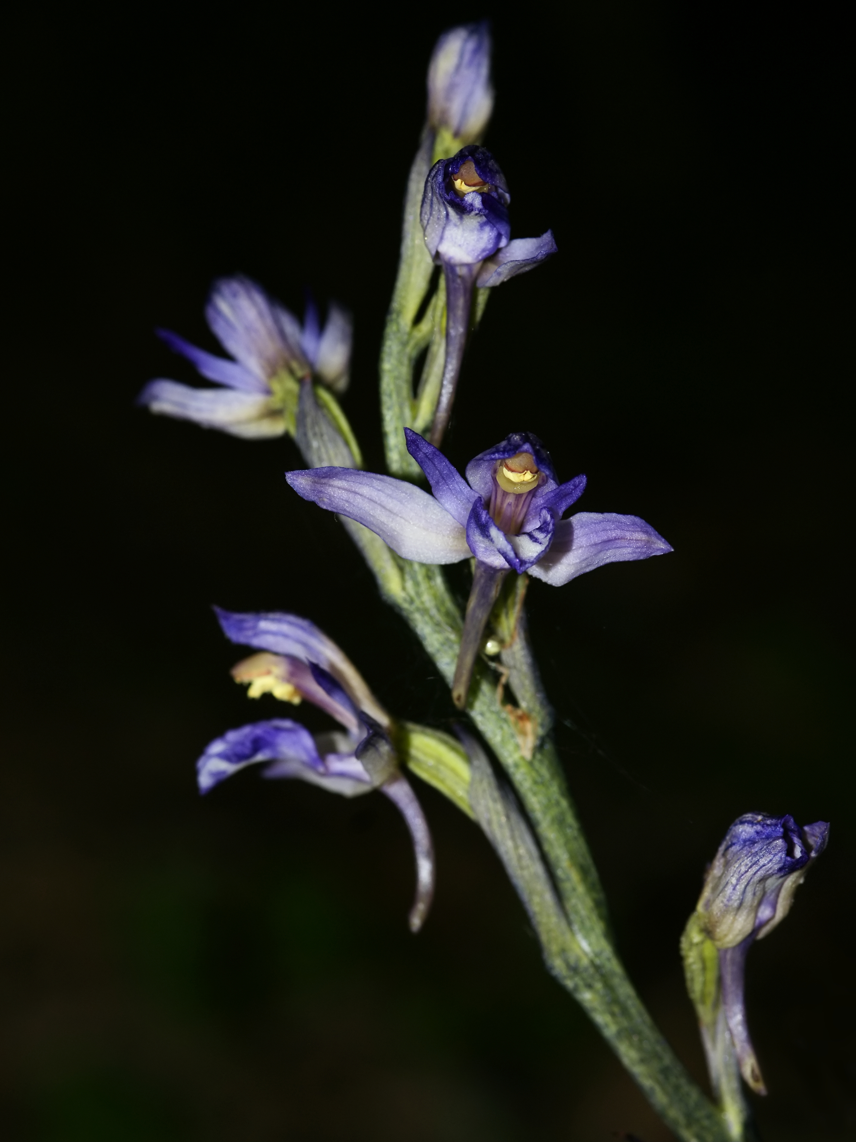 Violet Limodore, a species of myco-heterotrophic orchid which reaches its most northern occurrence in Belgium. Identification: Delforge, P., (2006). Orchids of Europe, North Africa and the Middle East. A & C Black - London. 640 pp. ISBN 9780713675252